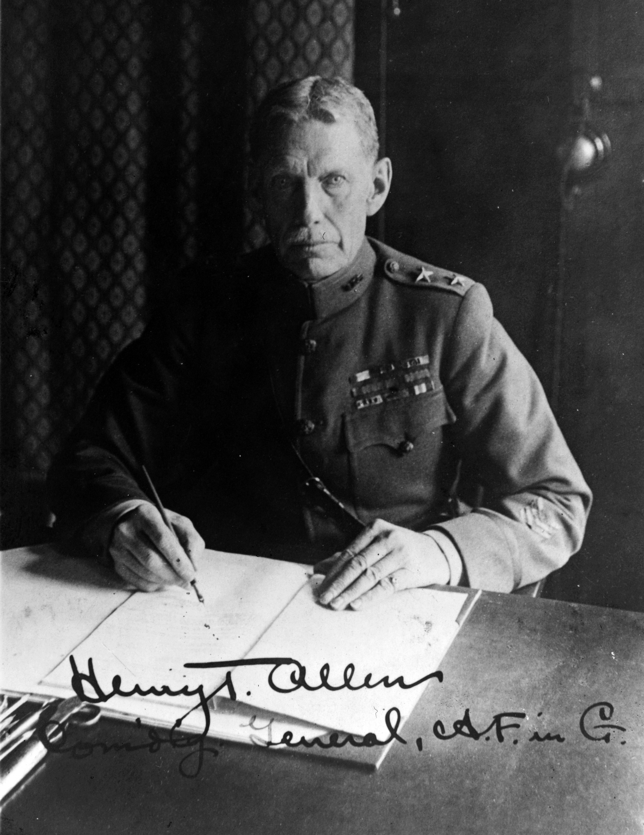 Gen. Henry T. Allen, half-length portrait, seated, facing front, writing at desk. Inscription reads: "Henry T. Allen, Com'dng [Commanding] General, cd.F. in G."